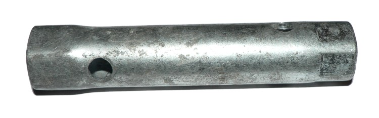 Box spanner